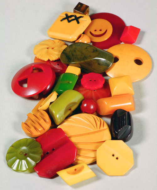 Set of 24 Phenol formaldehyde resin buttons of various shapes, sizes, and colors; colors include different shades of green, red, white, and amber; some have brass fasteners. Some buttons are formed of Catalin while others may be made of Bakelite.